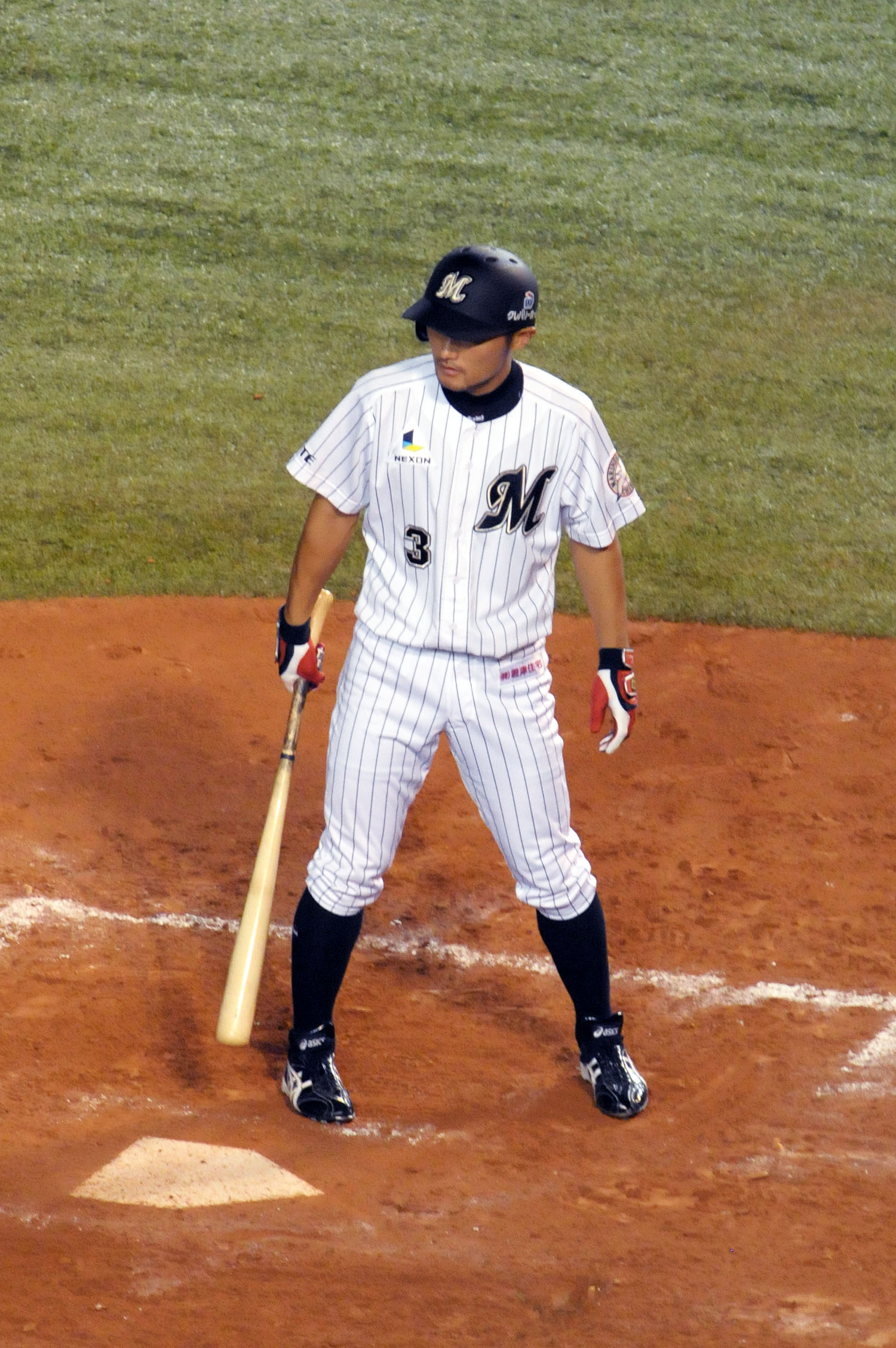 Takahito Kudo, outfielder of the Chiba Lotte Marines, at Chiba Marine Stadium.